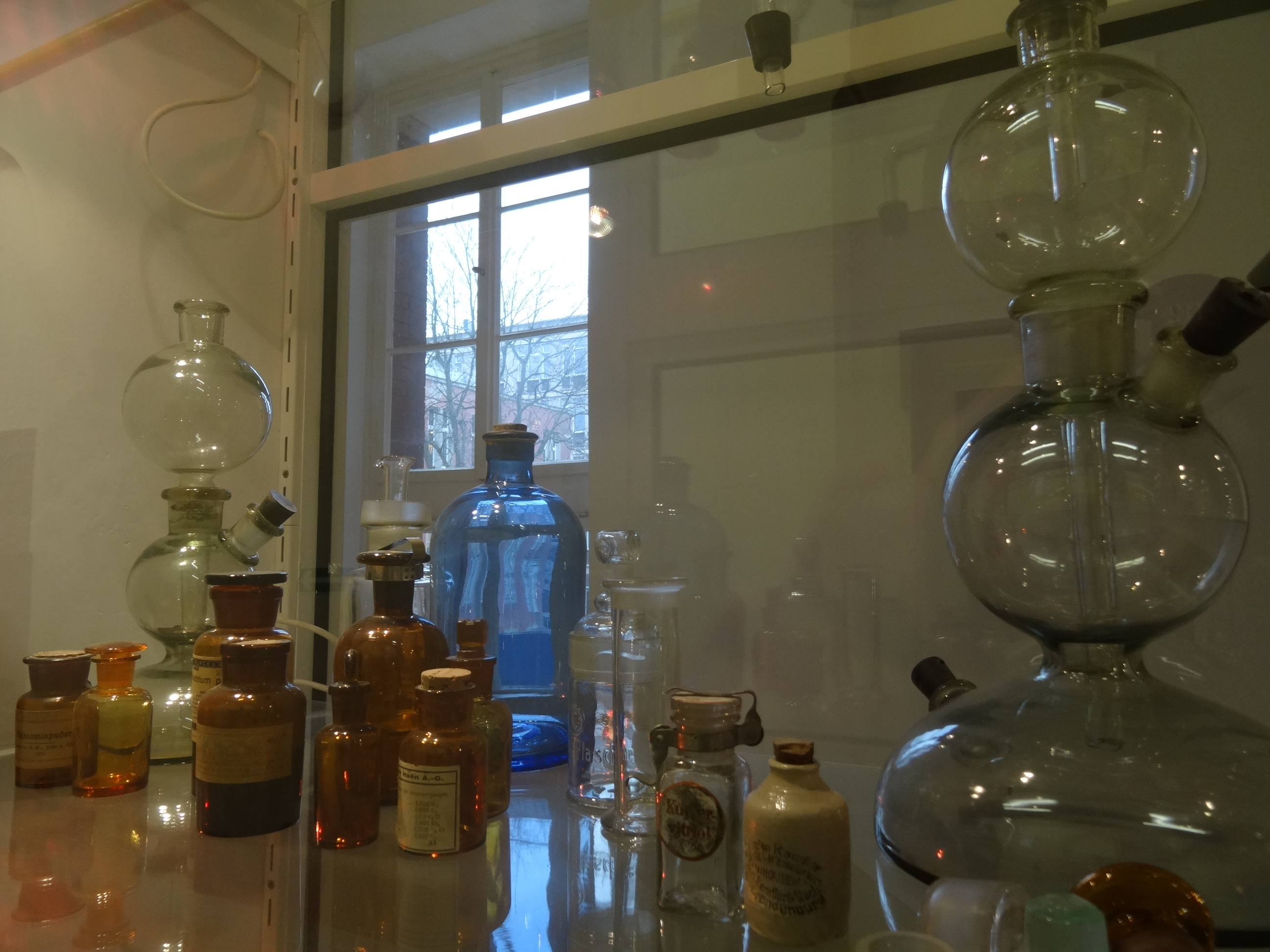 Vintage laboratory glassware - bottles and Kipp generators from first half XX cent.